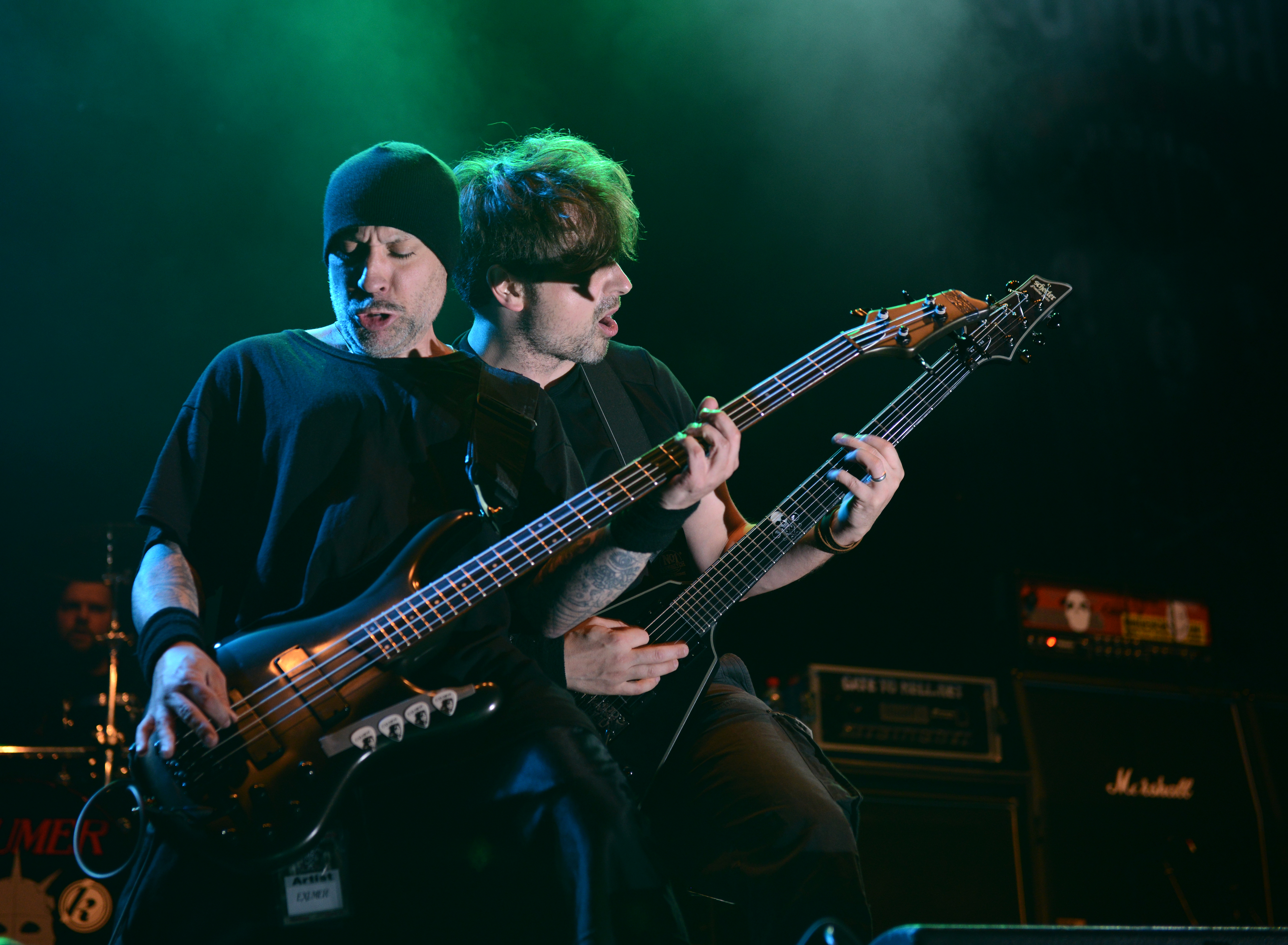 Exumer at Turock Open Air 2014 in Essen, Germany